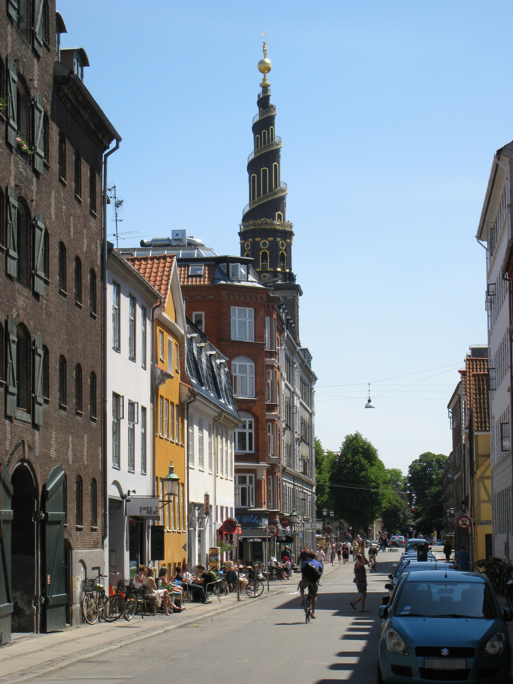 Sankt Annæ Gade (Copenhagen), as seen from Strandgade. June 11, 2011